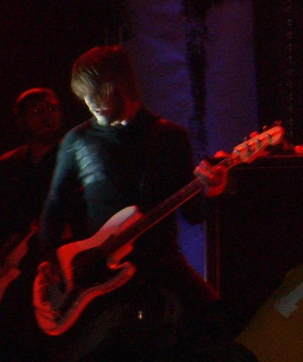 I took this picture with my camera phone at the Anberlin concert at the House of Blues in Cleveland in April 2007.